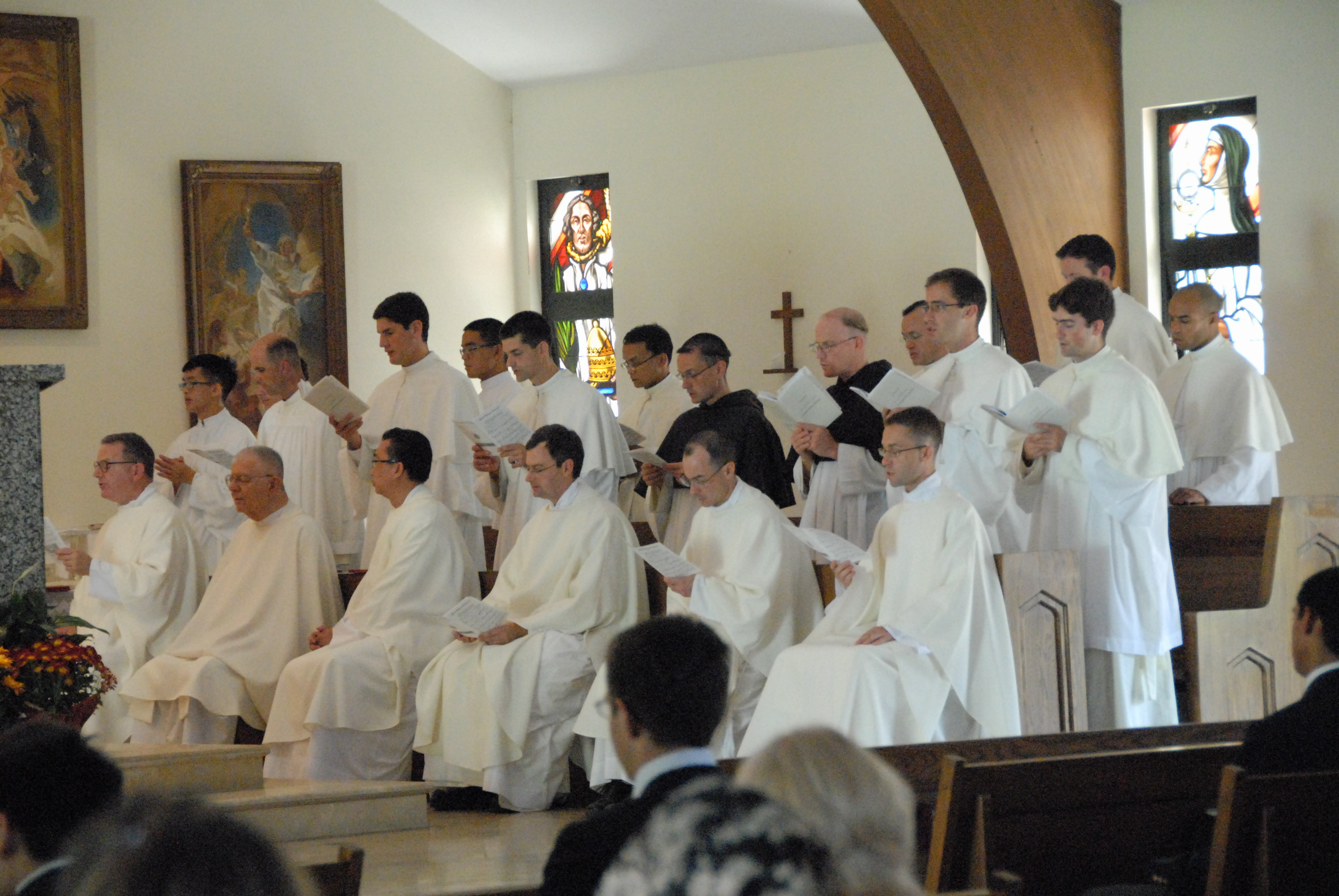 Liturgy at St. Michael's Abbey (Orange County, California)